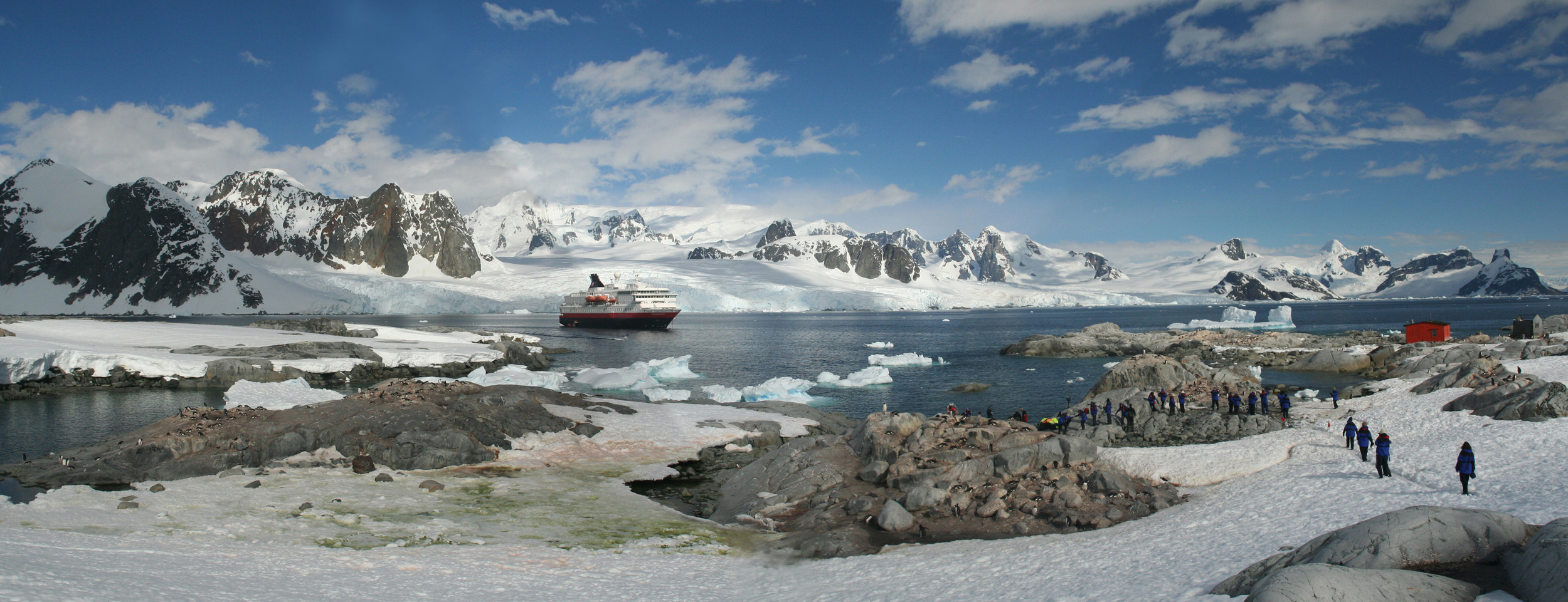 Panorama - penguin colonies, cruise ship & tourists, Petermann Island (foreground), Kiev Peninsula of Antarctic Peninsula (background).